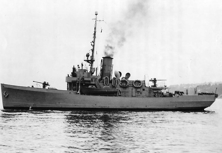 USCGC Onondaga WPG-79. No caption; photo taken during World War II probably in Alaskan waters.